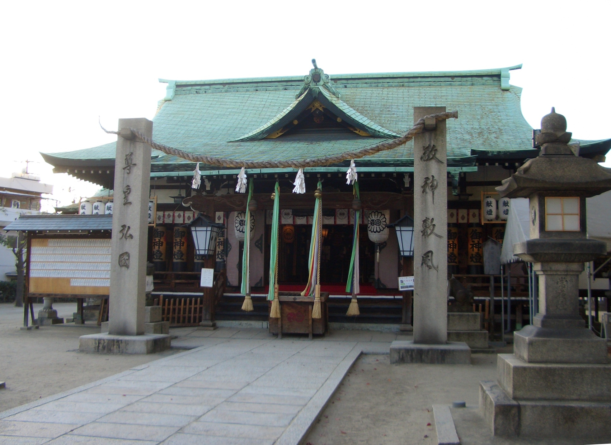 Izudonoguu in Suita city,Osaka,Japan. （Shinto shrine）泉殿宮